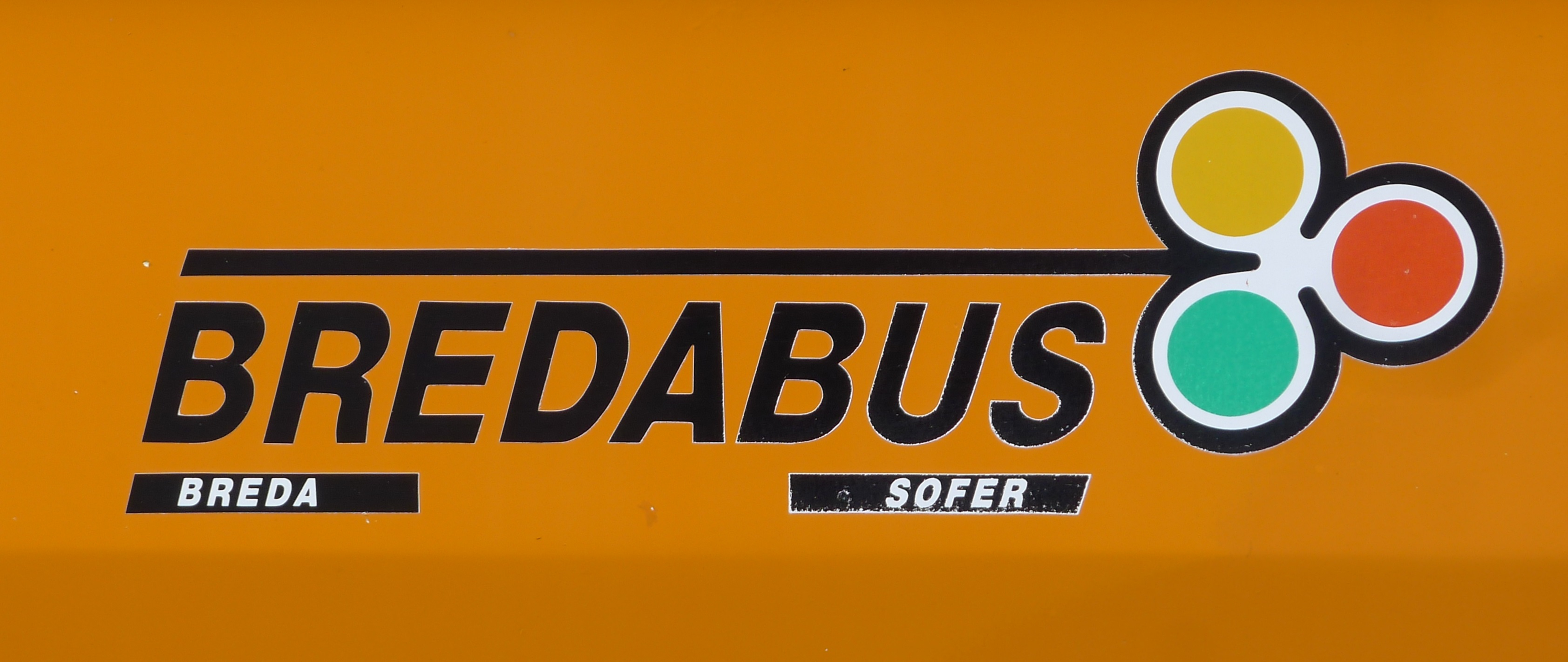 Logo Bredabus